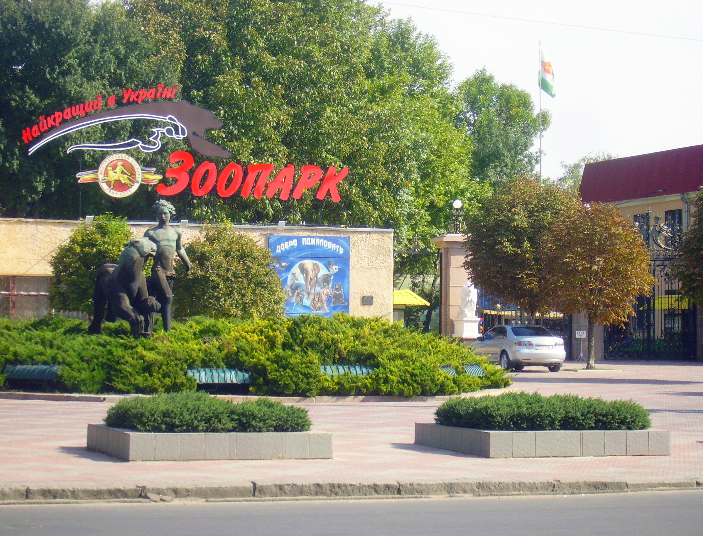 Gate of Mykolaiv Zoo